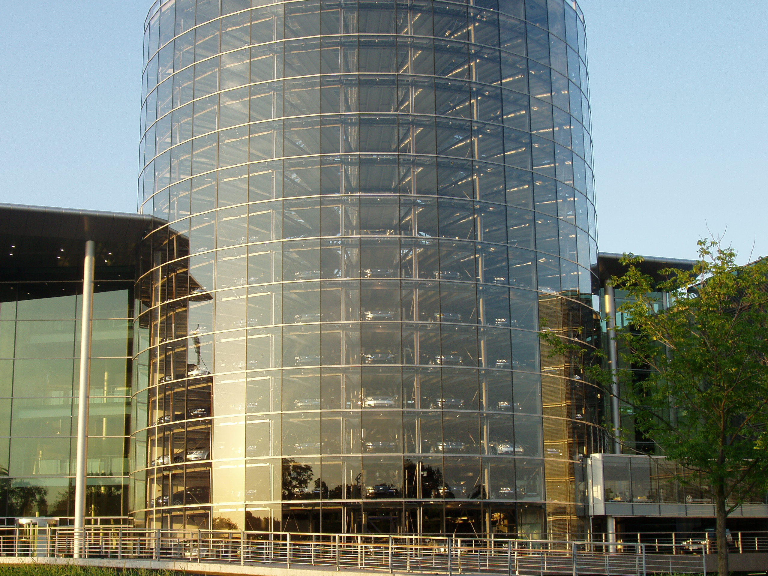 Glass manufacture an automobile production plant owned by German carmaker Volkswagen in Dresden (July 2005, with Olympus C-50 Zomm)